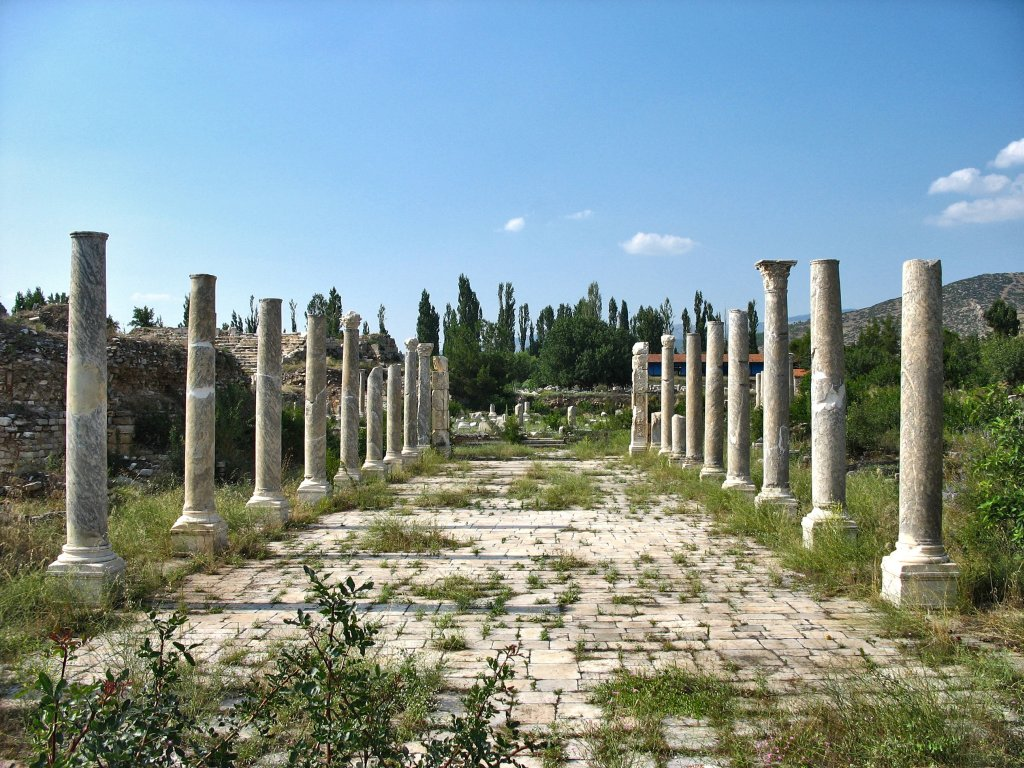 Aphrodisias, Theater Bath